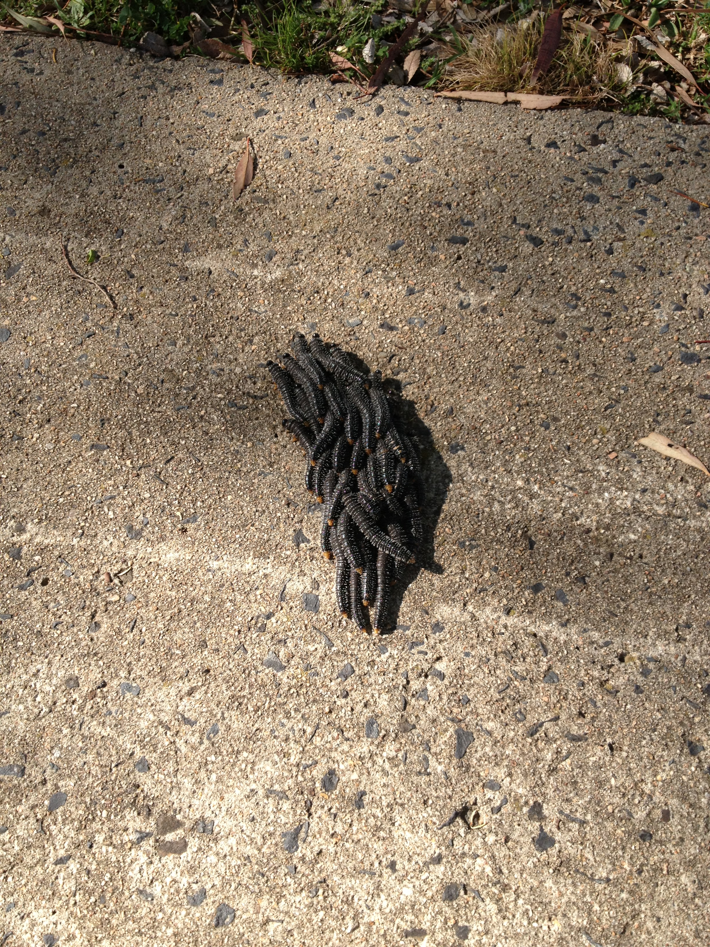 Spitfire Caterpillars captured moving across concrete footpath Oct 2012 Bathurst NSW Australia